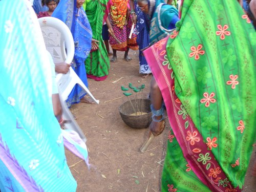 Famous Traditional Parrot Dance (Sua Nacha) at Khudmudi village, Chhattisgarh, India